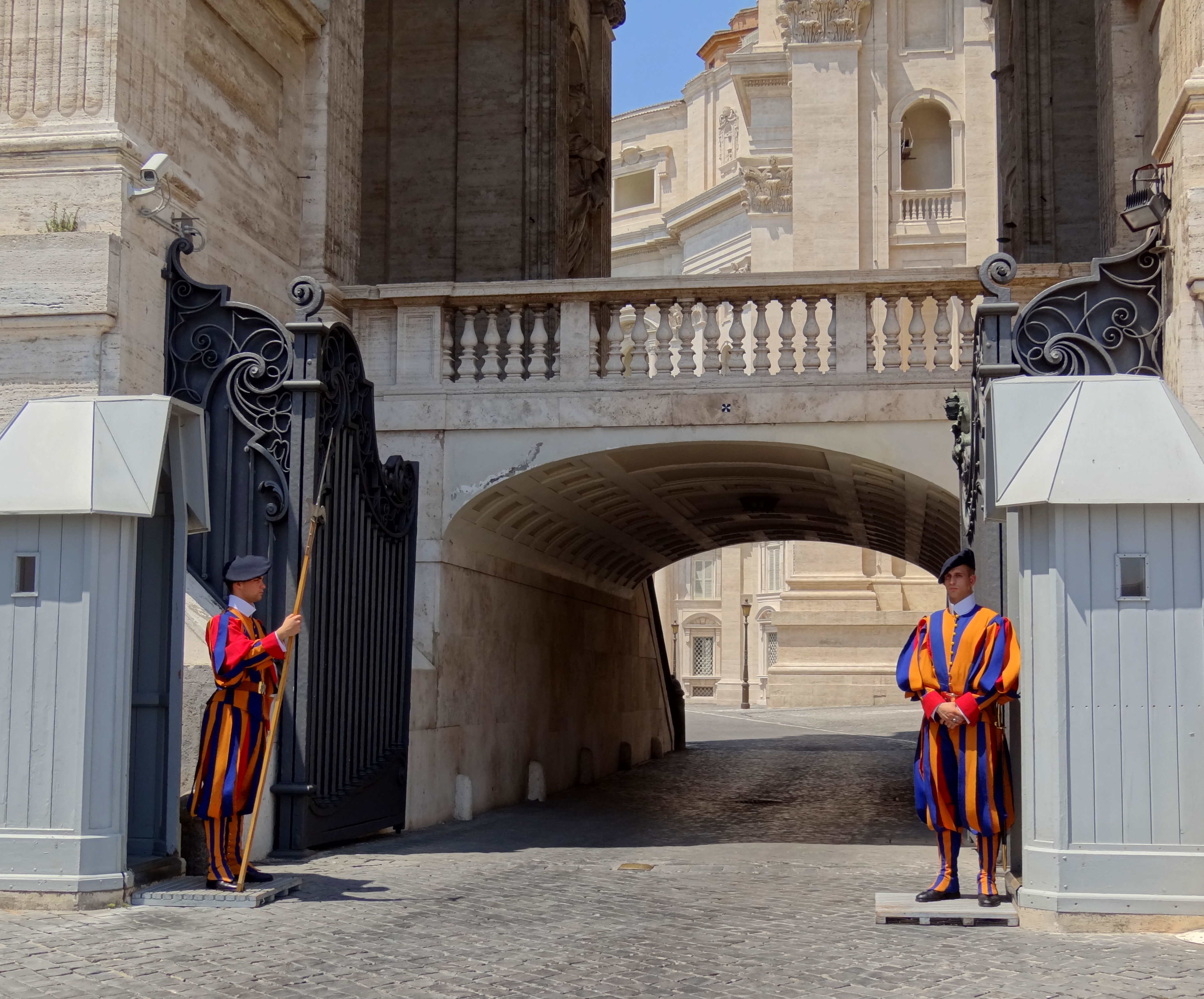 Two members of the Swiss Guards on duty at one of the entrances to the closed-off parts of The Vatican.